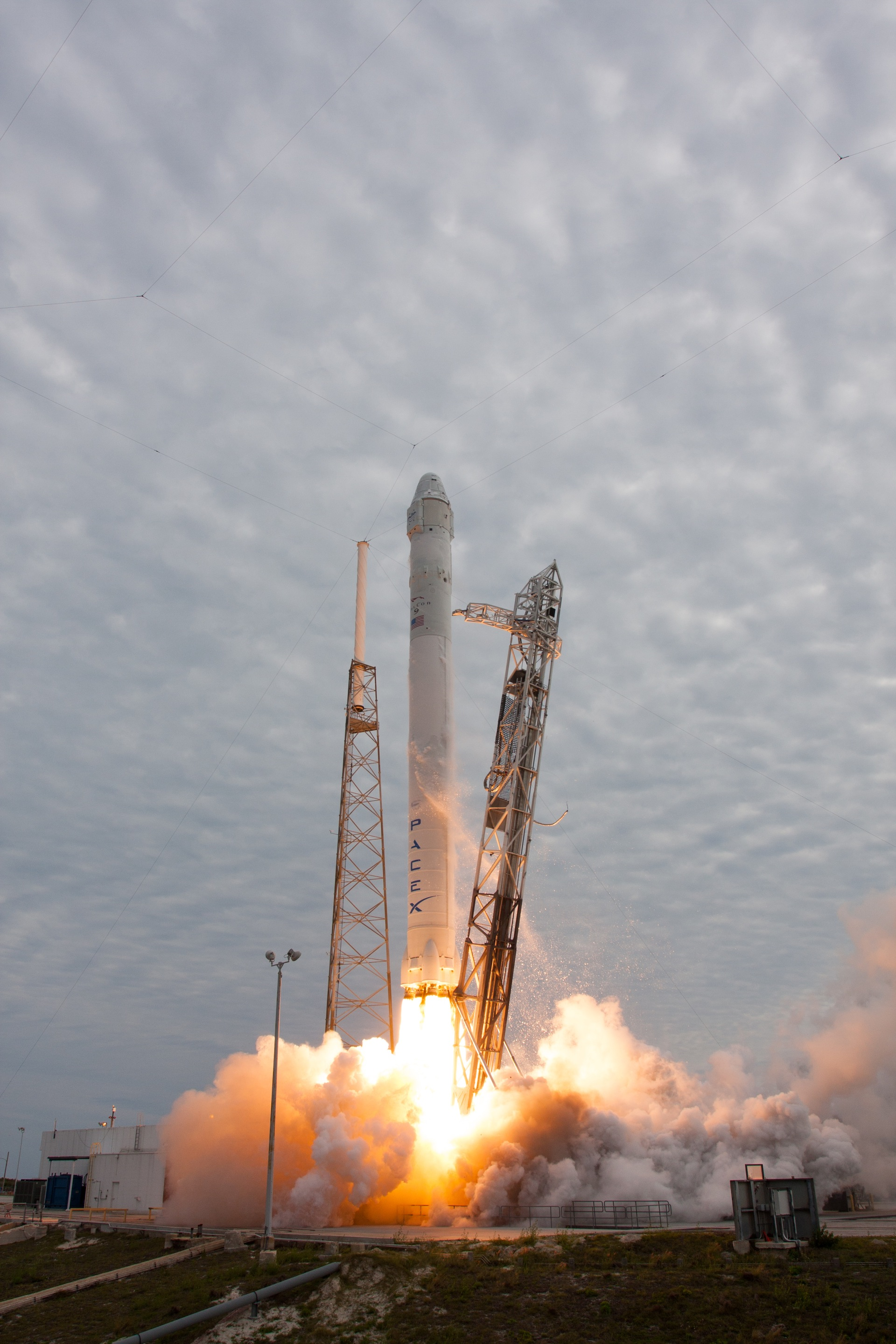 CRS-2 Falcon 9 and Dragon lift off from SLC-40 at Cape Canaveral AFS.